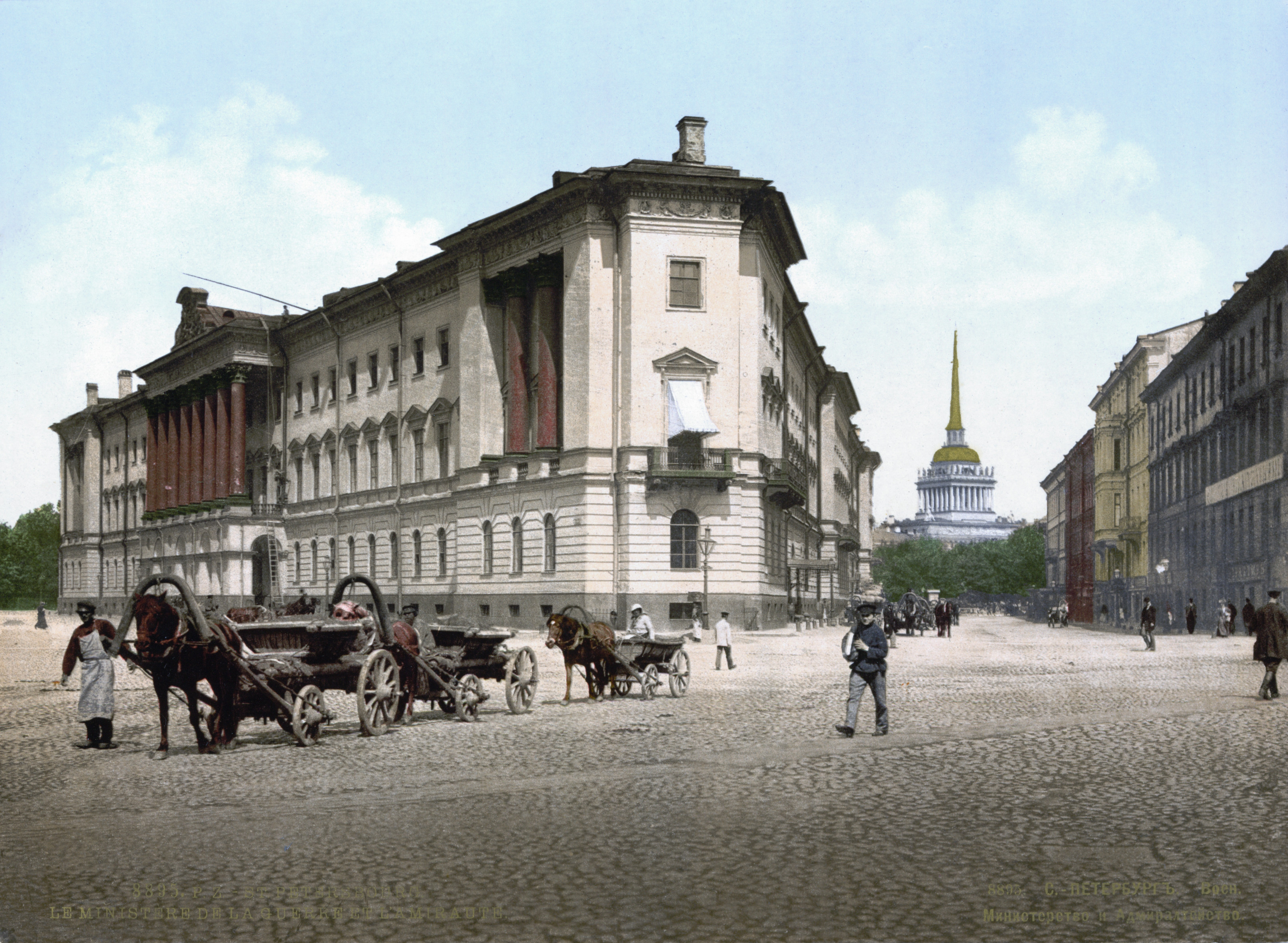 The building of War Offices (late palace of Lobanov-Rostovsky) and Admiralty on Voznesensky Prospect in Saint Petersburg (Russia). 19th-century photochrome print (1890—1900)